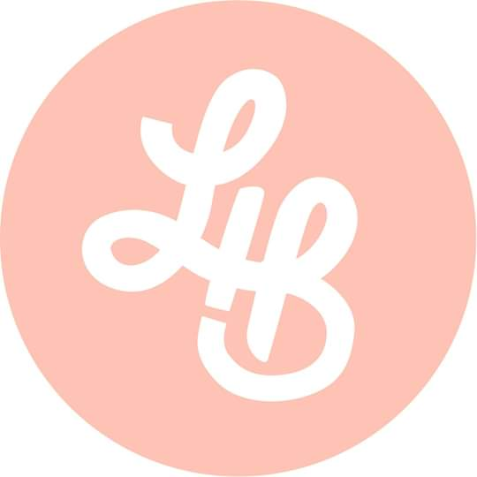 Lip B